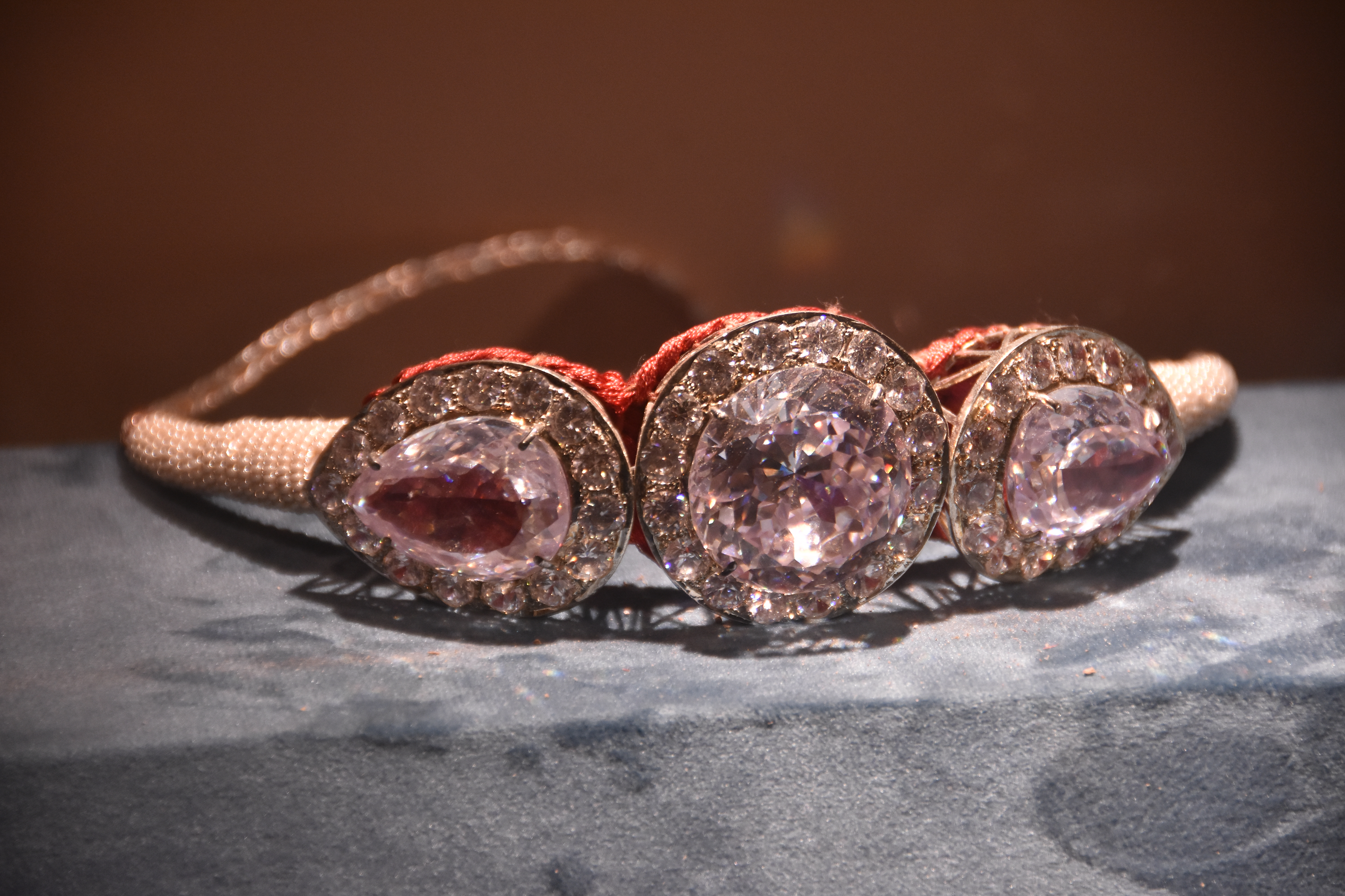 Here then is a replica of the Kohinoor diamond on display in the coin museum section of the Toshakhana (powder magazine) in the Gobindgarh Fort in Amritsar, north India. I guess the centre one is the Kohihoor diamond. The Koh-i-Noor (also spelt Kohinoor and Koh-i-Nur) is one of the largest cut diamonds in the world, weighing 105.6 carats (21.12 g). It is now part of the British Crown Jewels. The diamond was probably found at Kollur Mine on the banks of a river in Andhra Pradesh in southern India. There is no record of its original weight, but the earliest well-attested weight is 186 old carats. As a consequence of the history of the diamond involving a great deal of fighting between men, the Koh-i-Noor acquired a reputation within the British royal family for bringing bad luck to any man who wears it. Since arriving in the UK, it has only been worn by female members of the family. The governments of India, Pakistan, Iran, and Afghanistan have all claimed ownership of the Koh-i-Noor and have demanded its return ever since India gained independence from the UK in 1947. The British government however insists that the gem was obtained legally under the terms of the Last Treaty of Lahore and has rejected all claims to rightful ownership received from all the above countries. (Amritsar, Punjab, northern India, Nov. 2017)